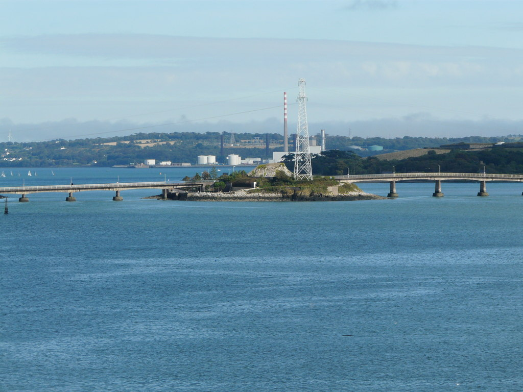 Rocky Island in Cork Harbour, Ireland. Situated between Haulbowline Island and the mainland, Rocky Island was used for military purposes, primarily as a magazine from the 19th century. Used for storage in the 20th century, the island's buildings were redeveloped as a crematorium in the early 21st century.